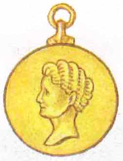 Badge of Ulan Her M Guard Regiment